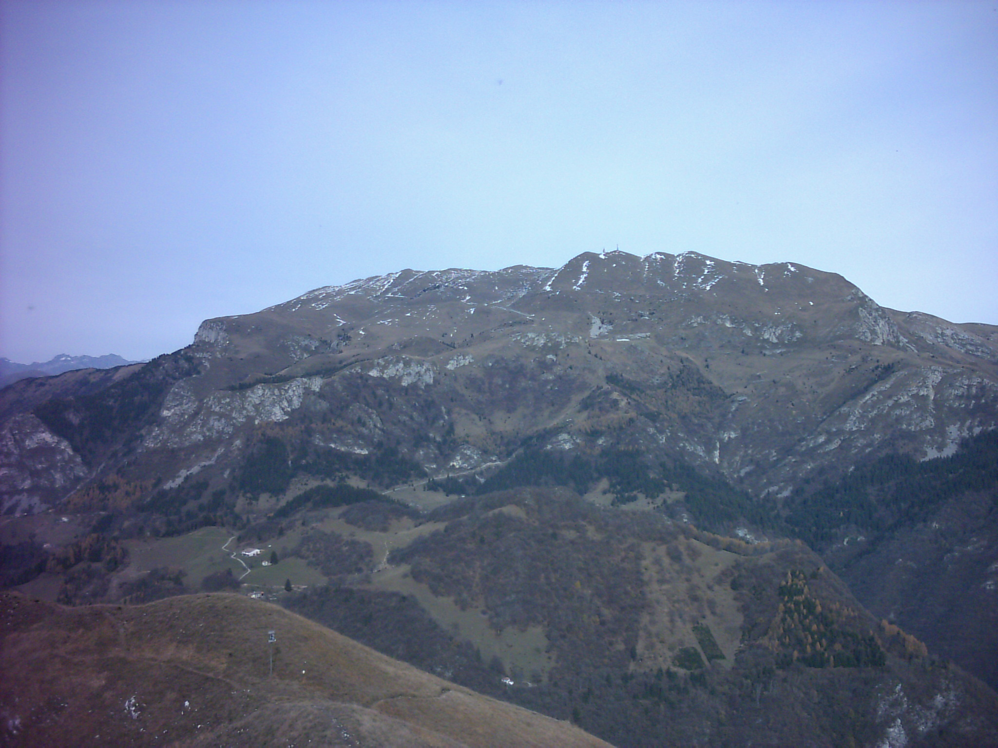 Mount Guglielmo or Gölem (1957 m): south face